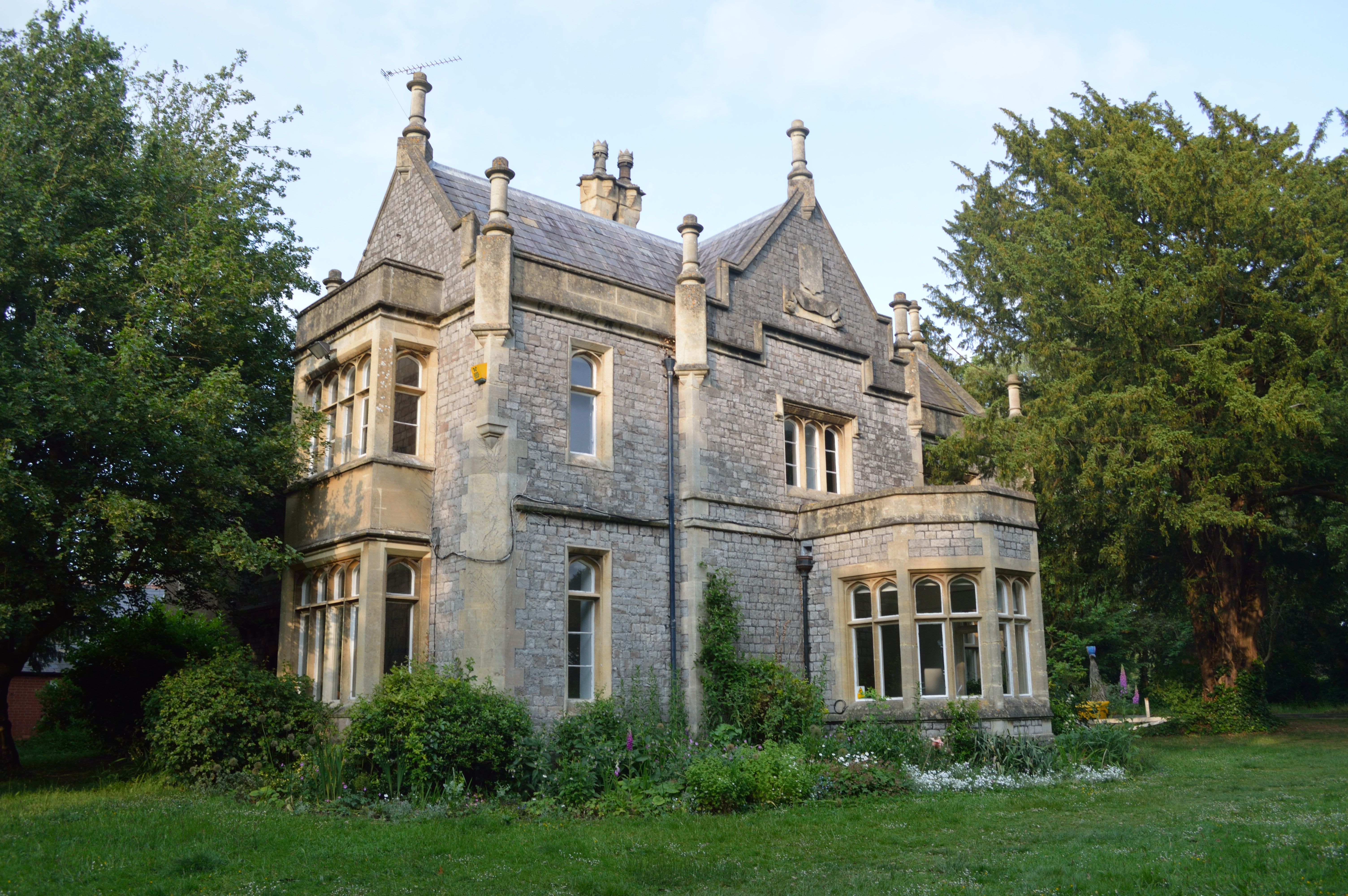 Stoke Lodge, Shirehampton Road, Stoke Bishop, Bristol. Currently the Stoke Bishop Adult Education Centre, run by Bristol City Council.